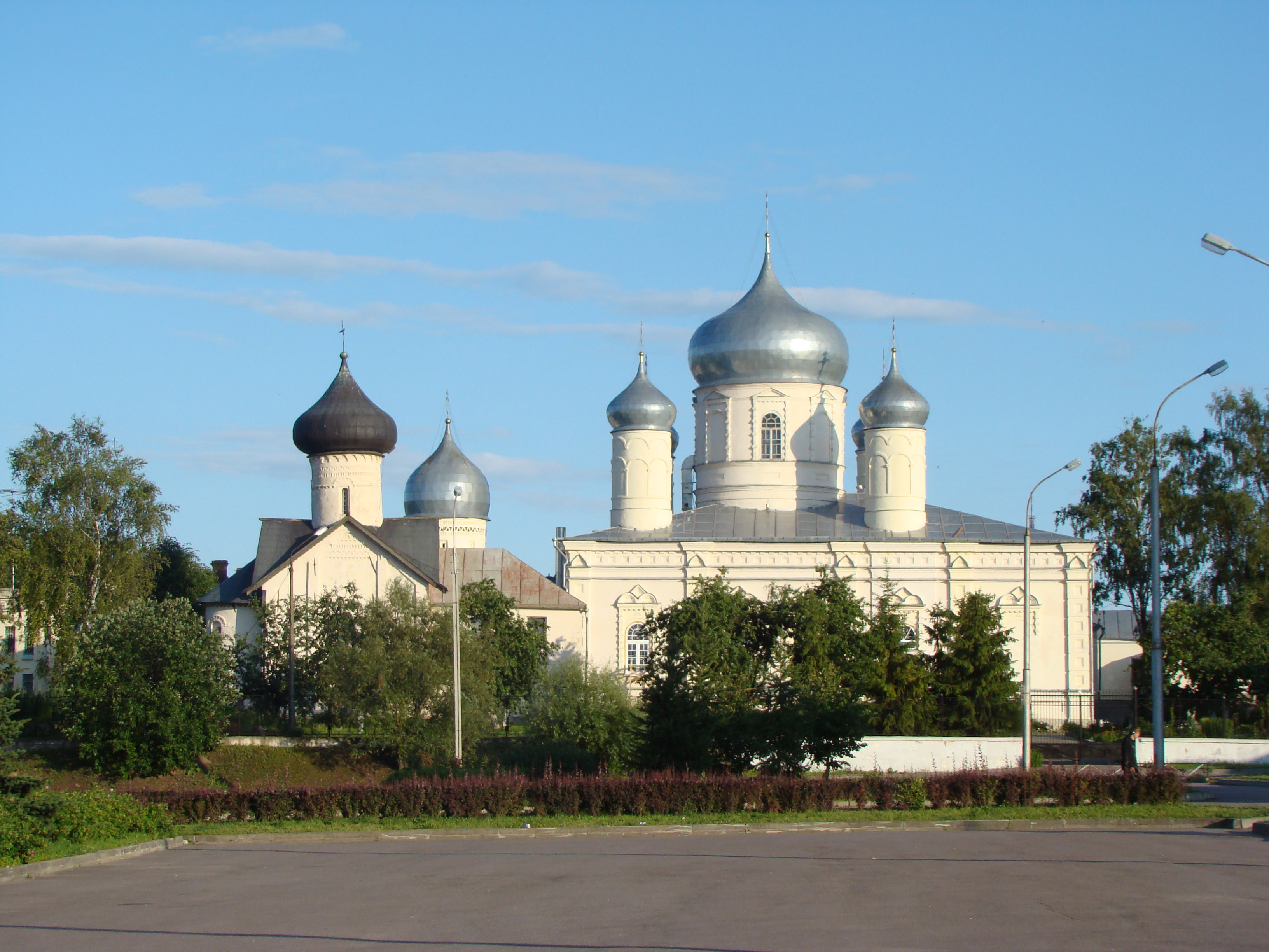 Pokrov (The Protection of the Mother of God) Cathedral Zverin Monastery in Velikiy Novgorod